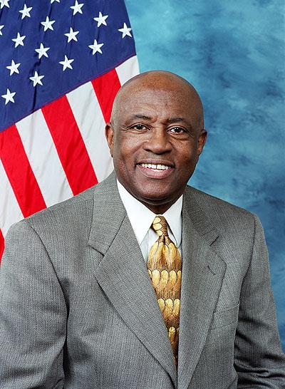 Official congressional portrait of U.S. Rep. Edolphus Towns of New York